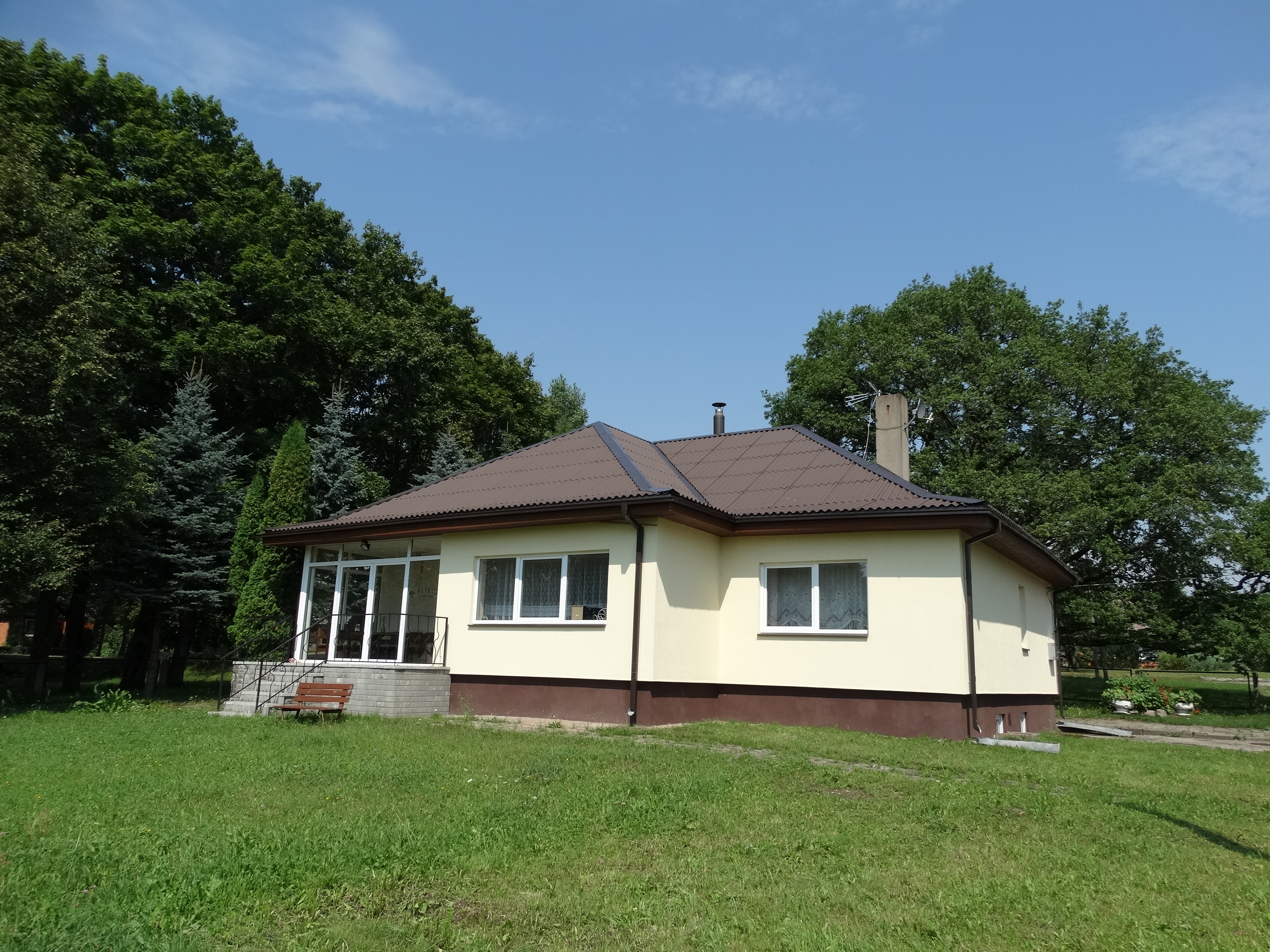 Community centre, Klykiai, Utena district, Lithuania